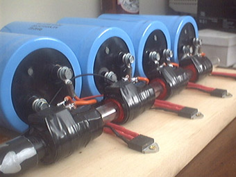 Author Joe Gargasz AKA TTLLOGIC, Souce Joe Gargasz